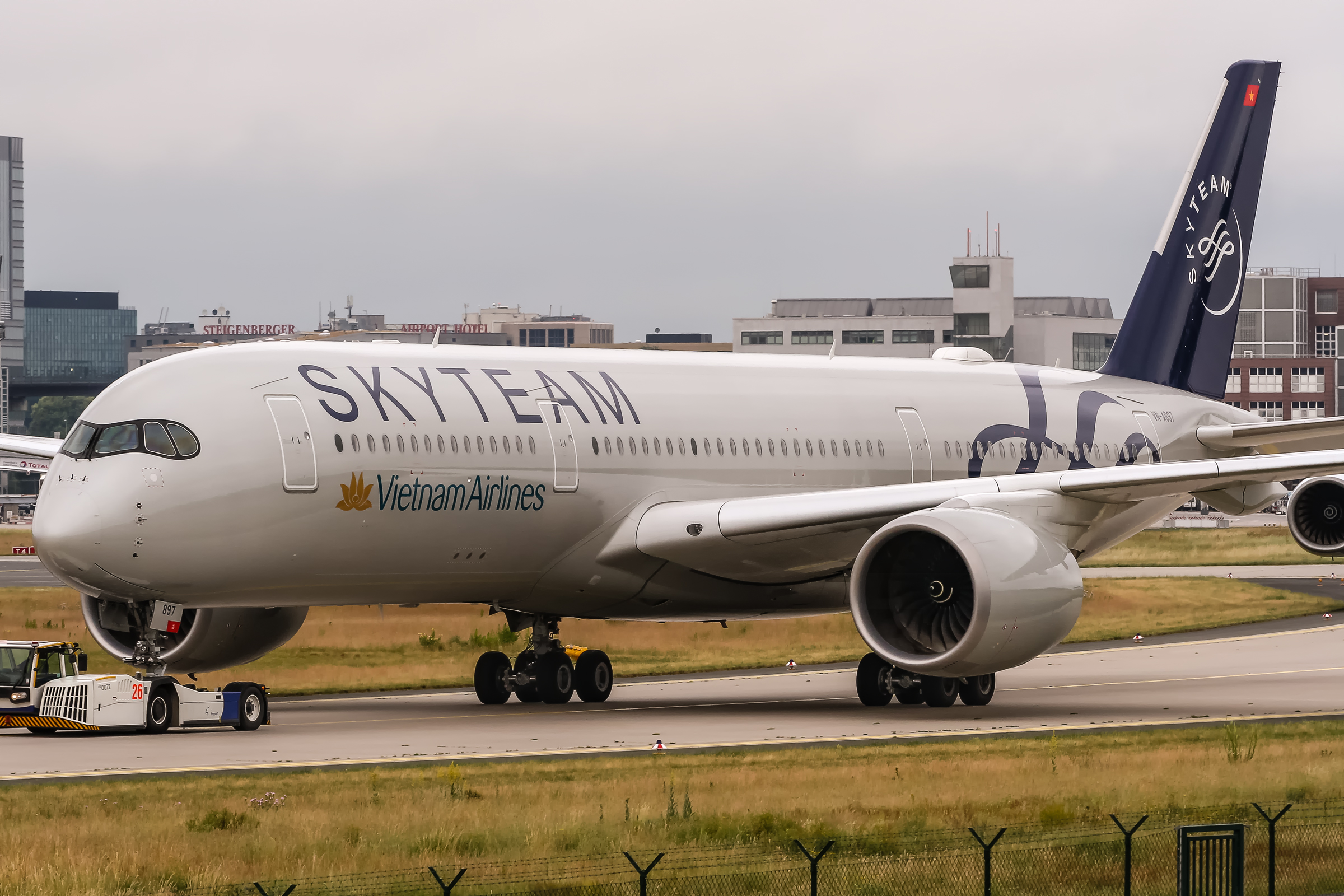 VN-A897 Vietnam Airlines Airbus A350-941 in SKYTEAM livery @ Frankfurt (FRA / EDDF) / 01.06.2018